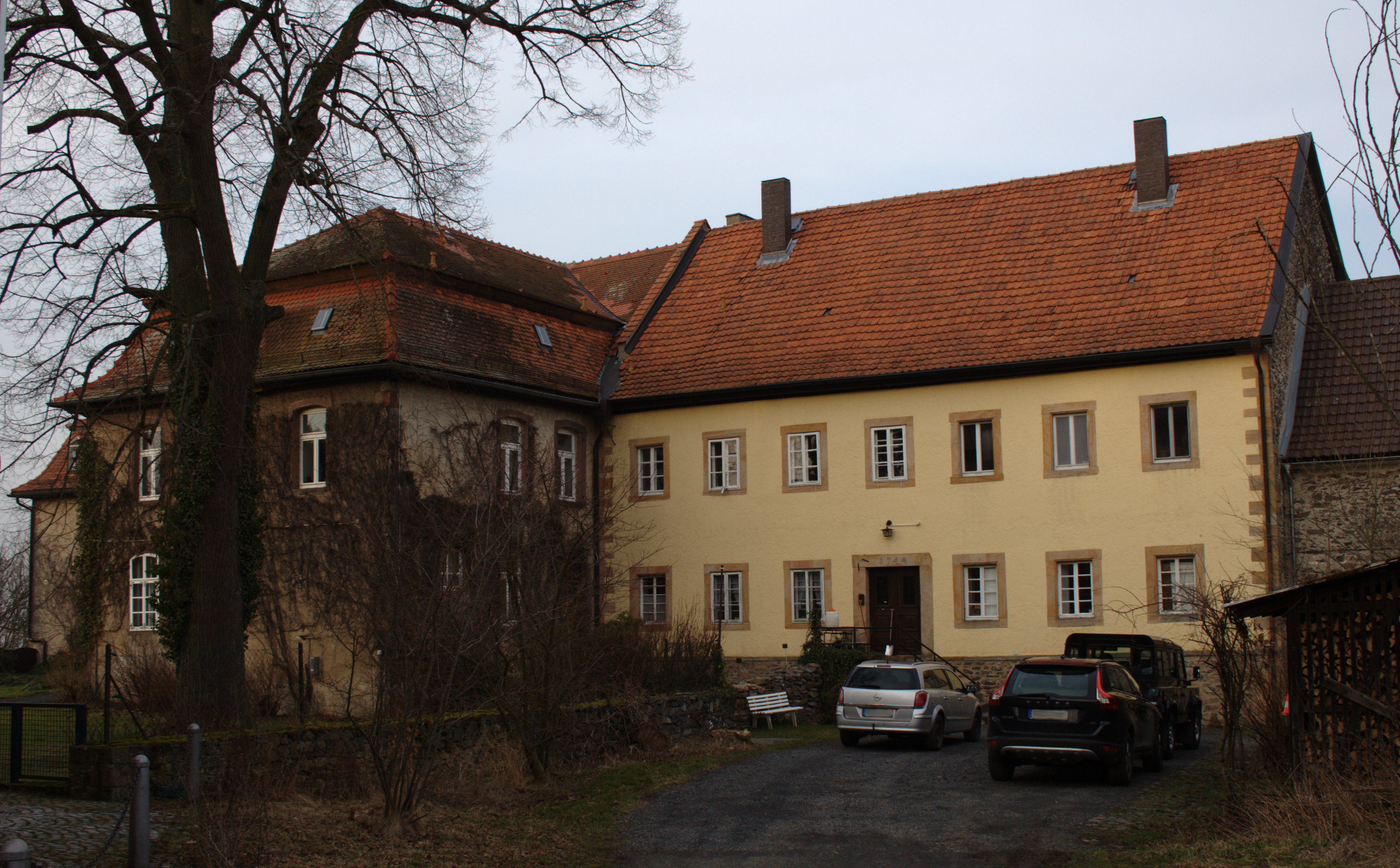 Main building in Alsfeld Altenburg, Am Schlossberg 28 / Hesse / Germany